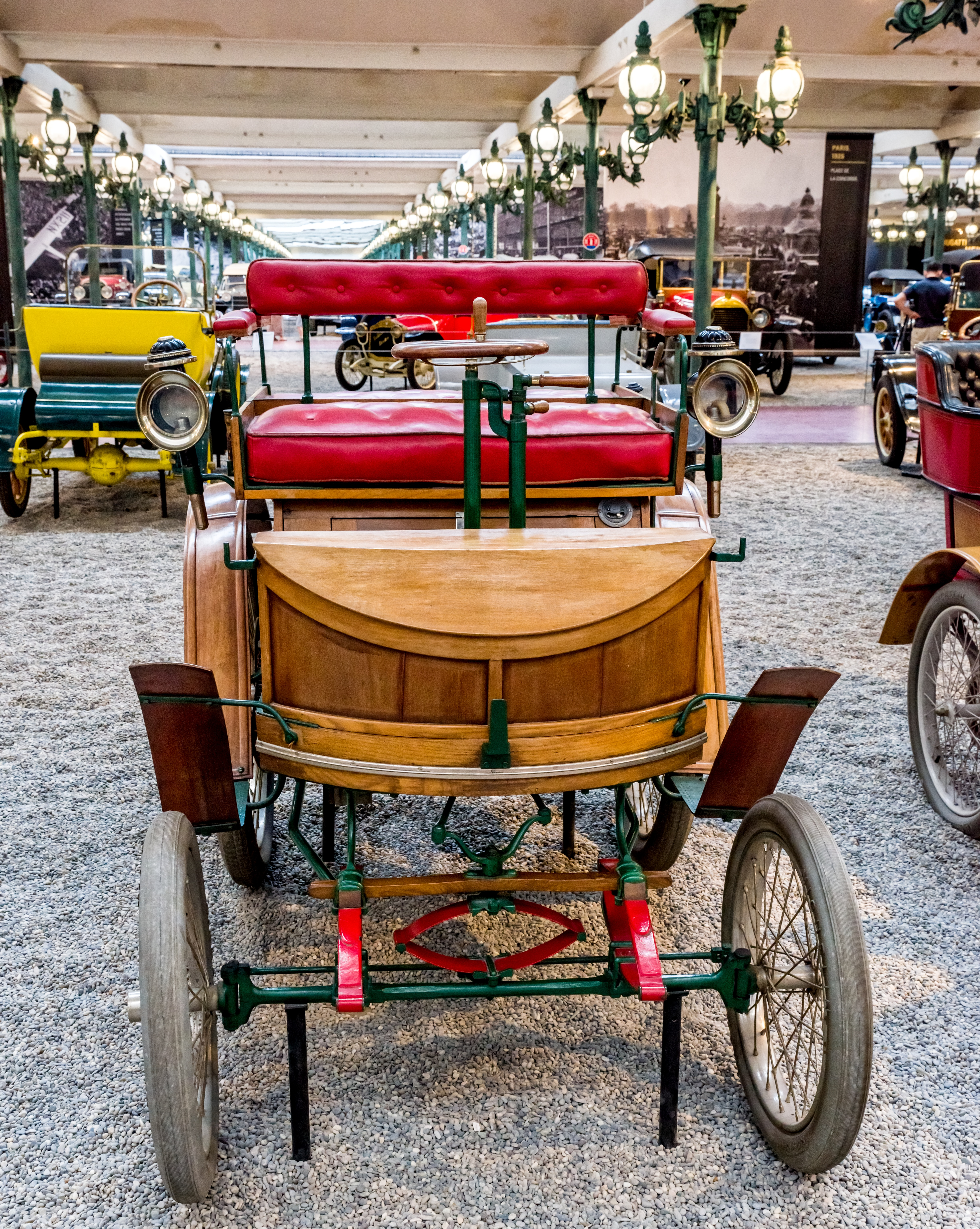 pictures from the Cité de l’Automobile – Musée National – Collection Schlump in Mulhouse, France ptictures from the 10. may 2018